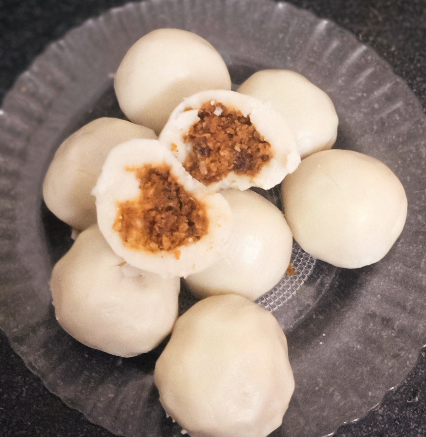 Kozhukkatta